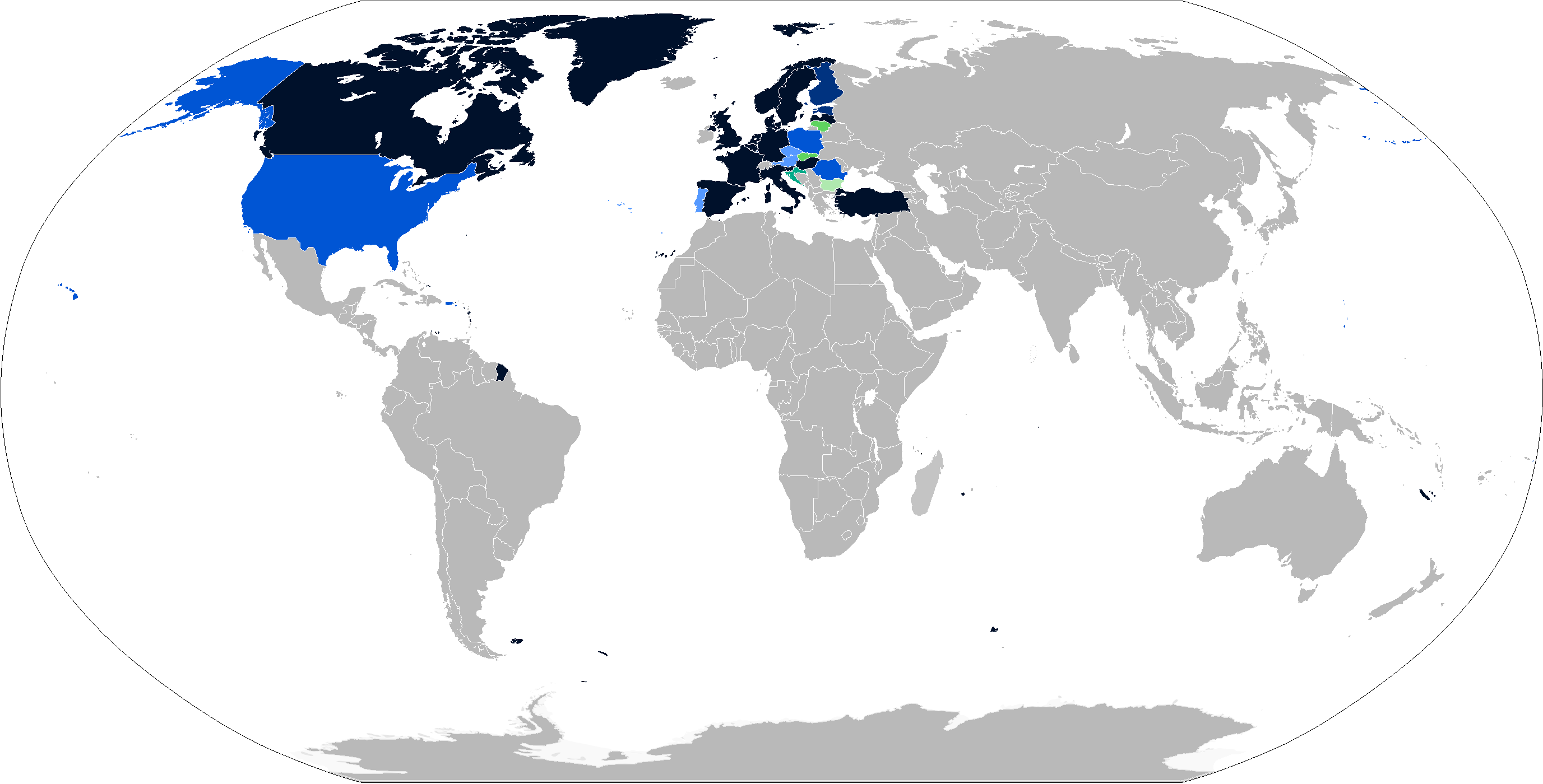 Map with Movement Coordination Centre Europe members in order of joining from dark to light